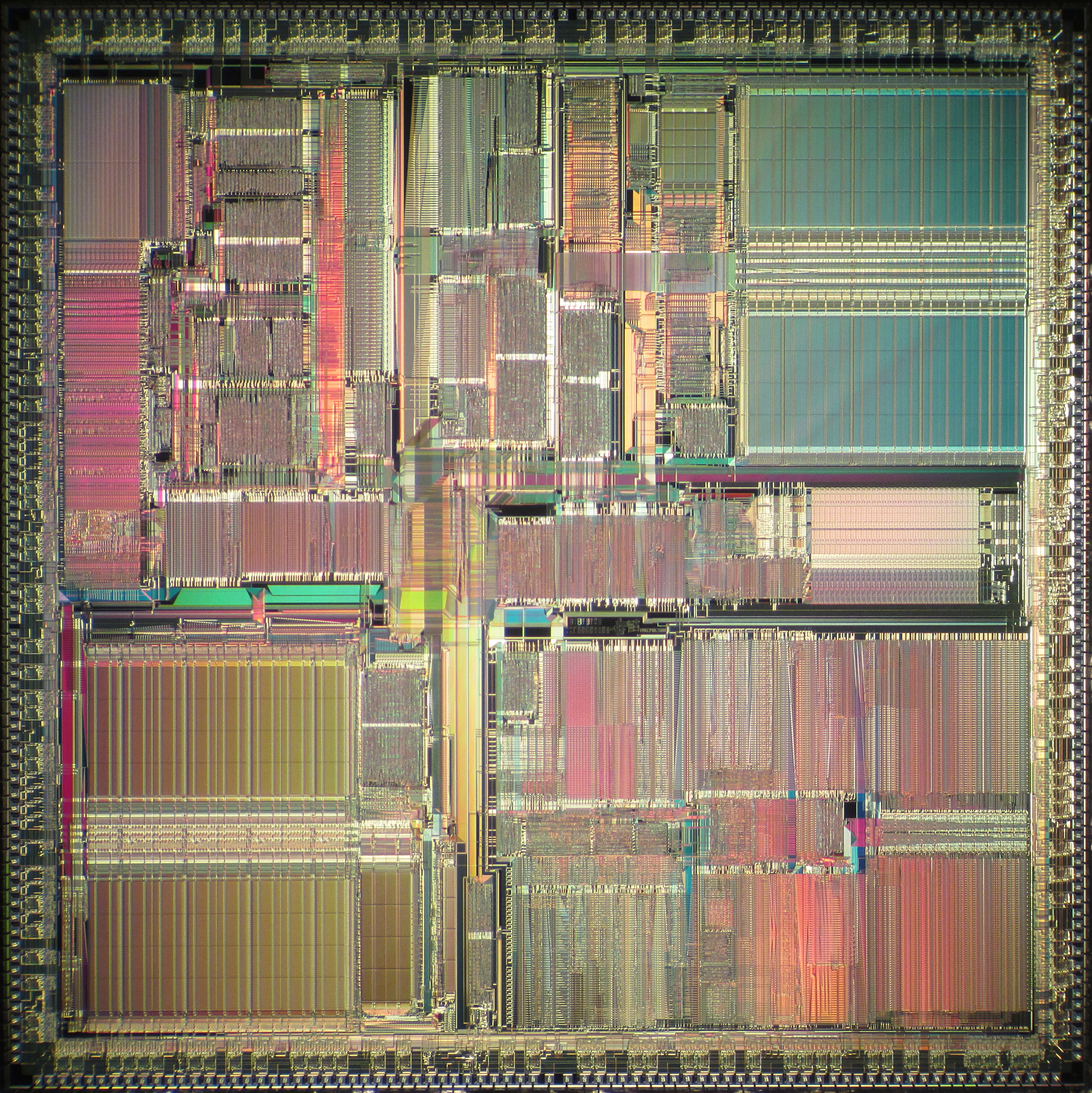 Die shot of Texas Instruments SuperSPARC I microprocessor (TMX390Z50GF).